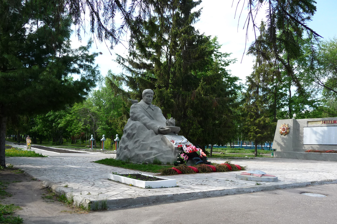 Great Patriotic War Memorial, Spassk, Penza oblast, Russia